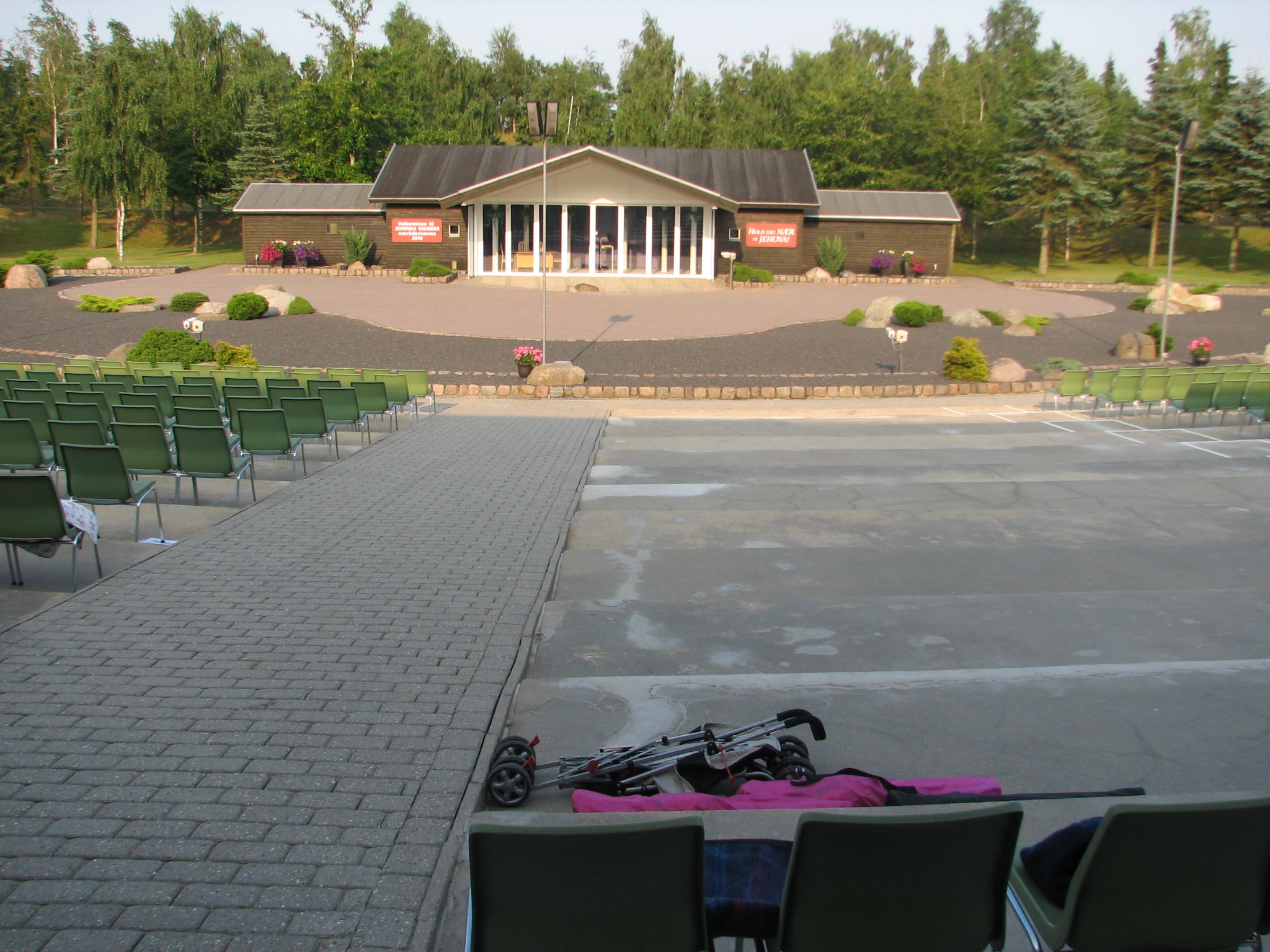 Stage - "Jehovah's Witnesses Convention Center" - Silkeborg, Danmark